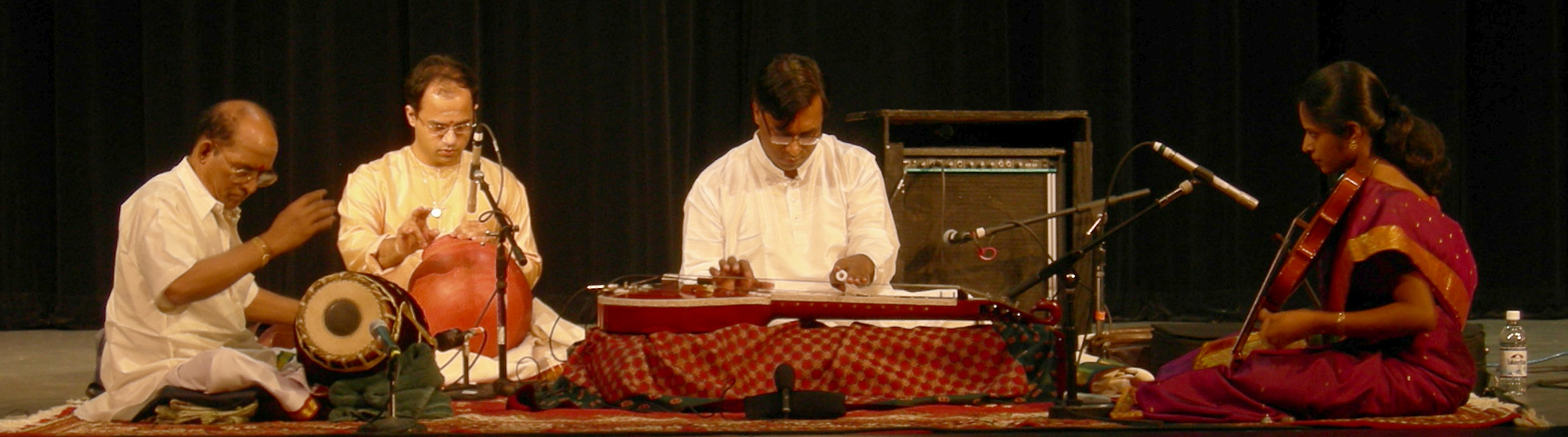 South Indian (Carnatic) musical performance. From left to right: Guruvayur Dorai, mridangam Ravi Balasubramanian, ghatam Ravikiran, navachitraveena, which is his own invention, basically a hollow-body electric chitraveena played with a teflon (rather than ebony) slide. Akkarai S. Subhalakshmi, violin Photo taken at Interlake High School, Bellevue, Washington, during a performance in the Ragamala series (Greater Seattle).